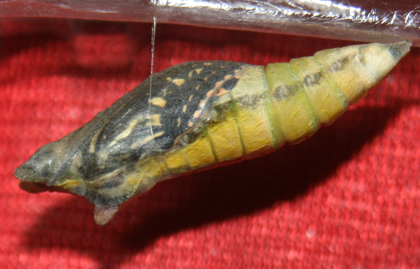 Papilio xuthus